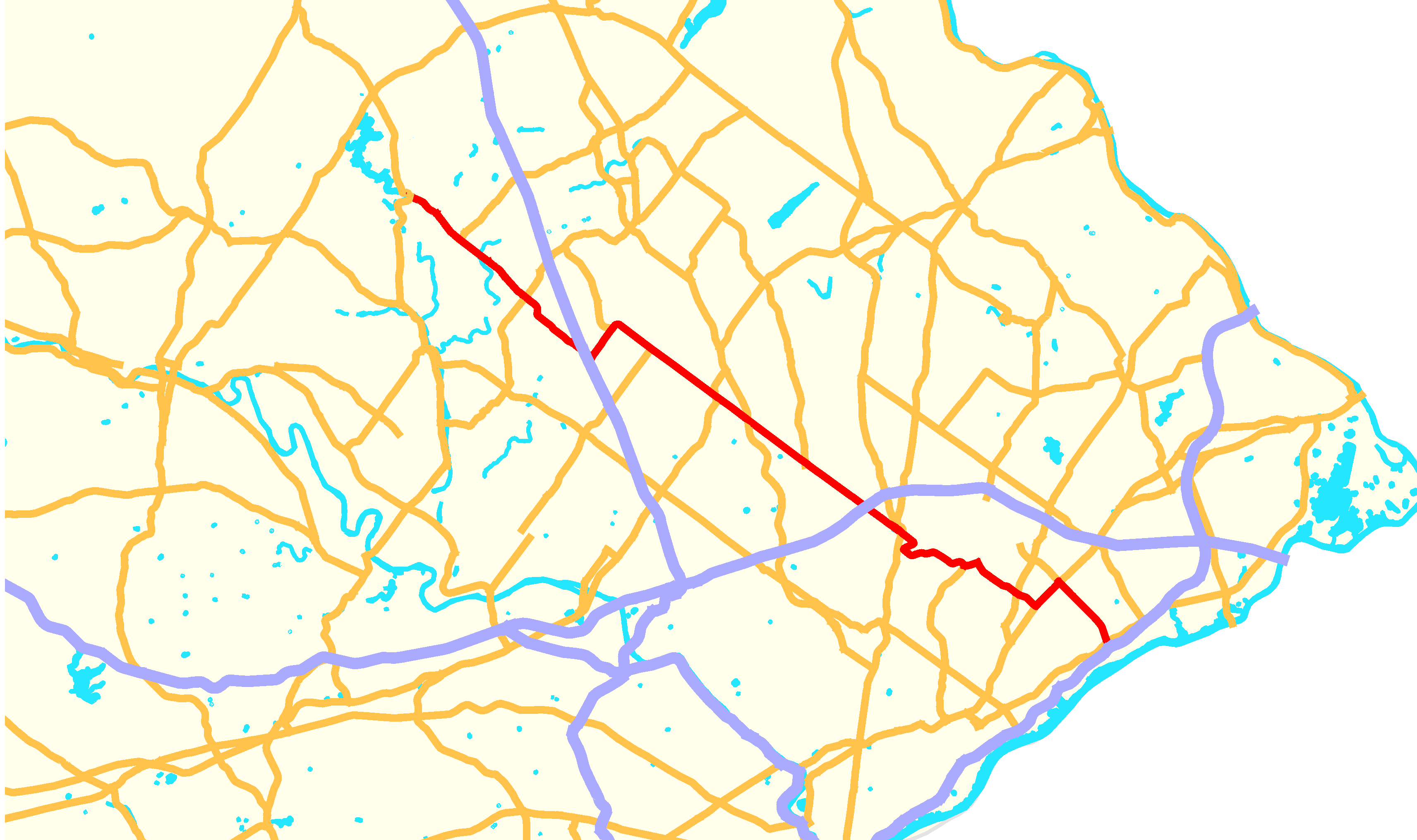 Map of Pennsylvania Route 63